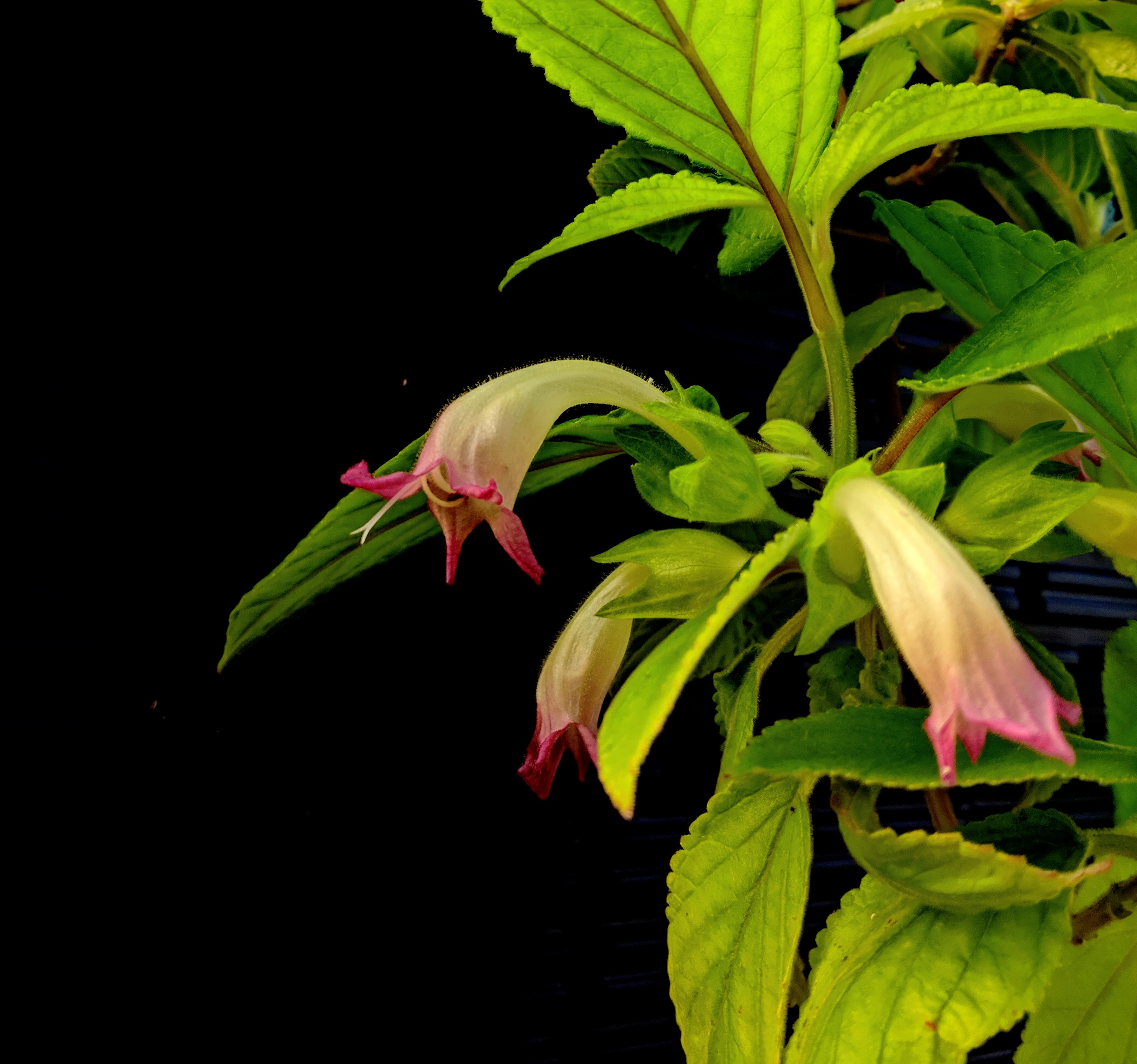 Stenogyne kanehoana (SteKan) is an endangered plant in the mint family, with very few, if any, individuals found in the wild. This individual flowered in a greenhouse of the Oahu Army Natural Resources Program in March 2019